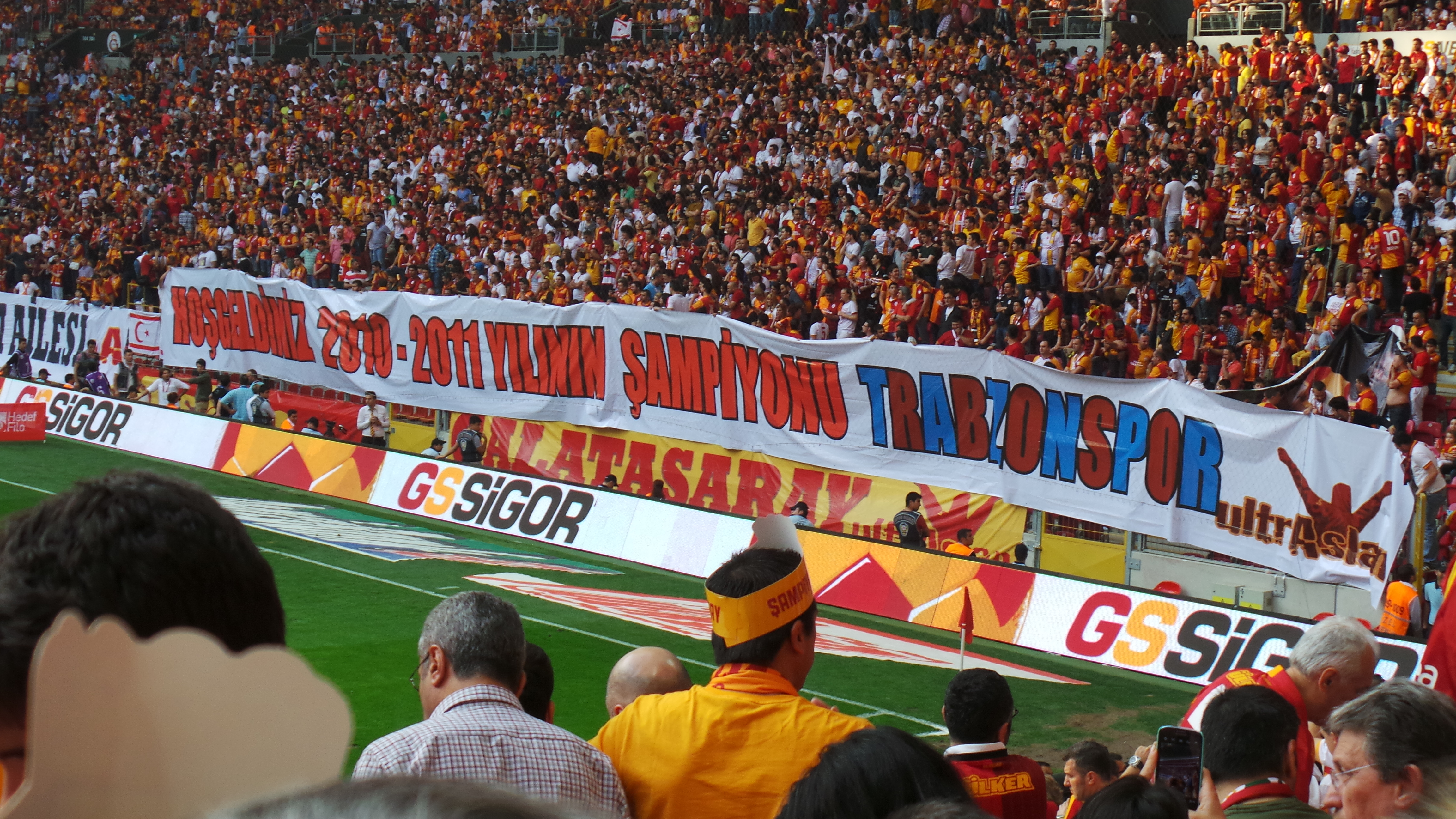 GS-Trabzonspor maçı öncesi bir pankart